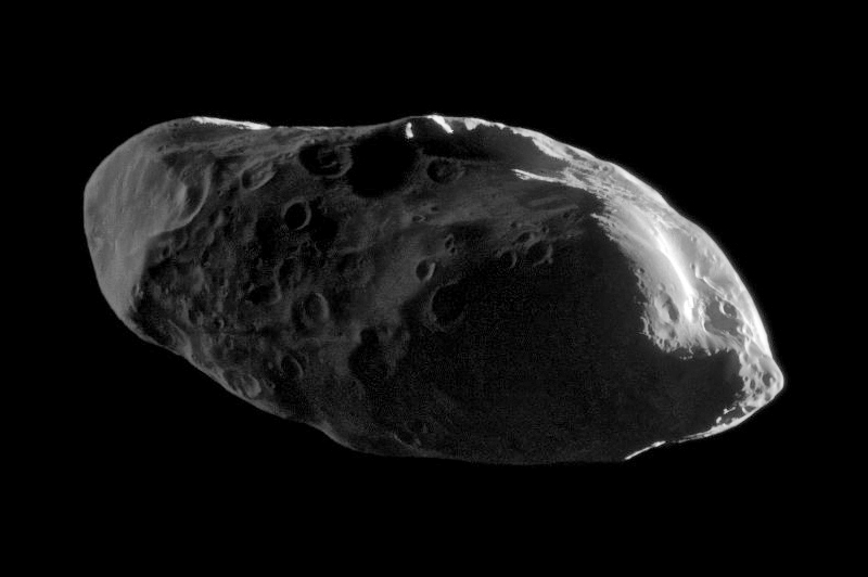 Cassini spacecraft image of Prometheus, one of Saturn's small inner moons. Appearing like eyes on a potato, craters cover the dimly lit surface of the moon Prometheus in this high-resolution image from Cassini's early 2010 flyby. The Jan. 27 encounter represented the closest imaging sequence yet of that moon for Cassini. This view looks toward the trailing hemisphere of Prometheus (86 kilometers, 53 miles across). North on Prometheus is up and rotated 8 degrees to the right. The moon is lit by sunlight on the right and Saturnshine on the left. The image was taken in visible light with the Cassini spacecraft narrow-angle camera on Jan. 27, 2010. The view was obtained at a distance of approximately 34,000 kilometers (21,000 miles) from Prometheus and at a Sun-Prometheus-spacecraft, or phase, angle of 126 degrees. Image scale is 200 meters (658 feet) per pixel. The Cassini Equinox Mission is a joint United States and European endeavor. The Jet Propulsion Laboratory, a division of the California Institute of Technology in Pasadena, manages the mission for NASA's Science Mission Directorate, Washington, D.C. The Cassini orbiter was designed, developed and assembled at JPL. The imaging team consists of scientists from the US, England, France, and Germany. The imaging operations center and team lead (Dr. C. Porco) are based at the Space Science Institute in Boulder, Colo. For more information about the Cassini Equinox Mission visit and The original NASA image has been modified by cropping and brightening shadows. A version in which shadows are brightened less is here.